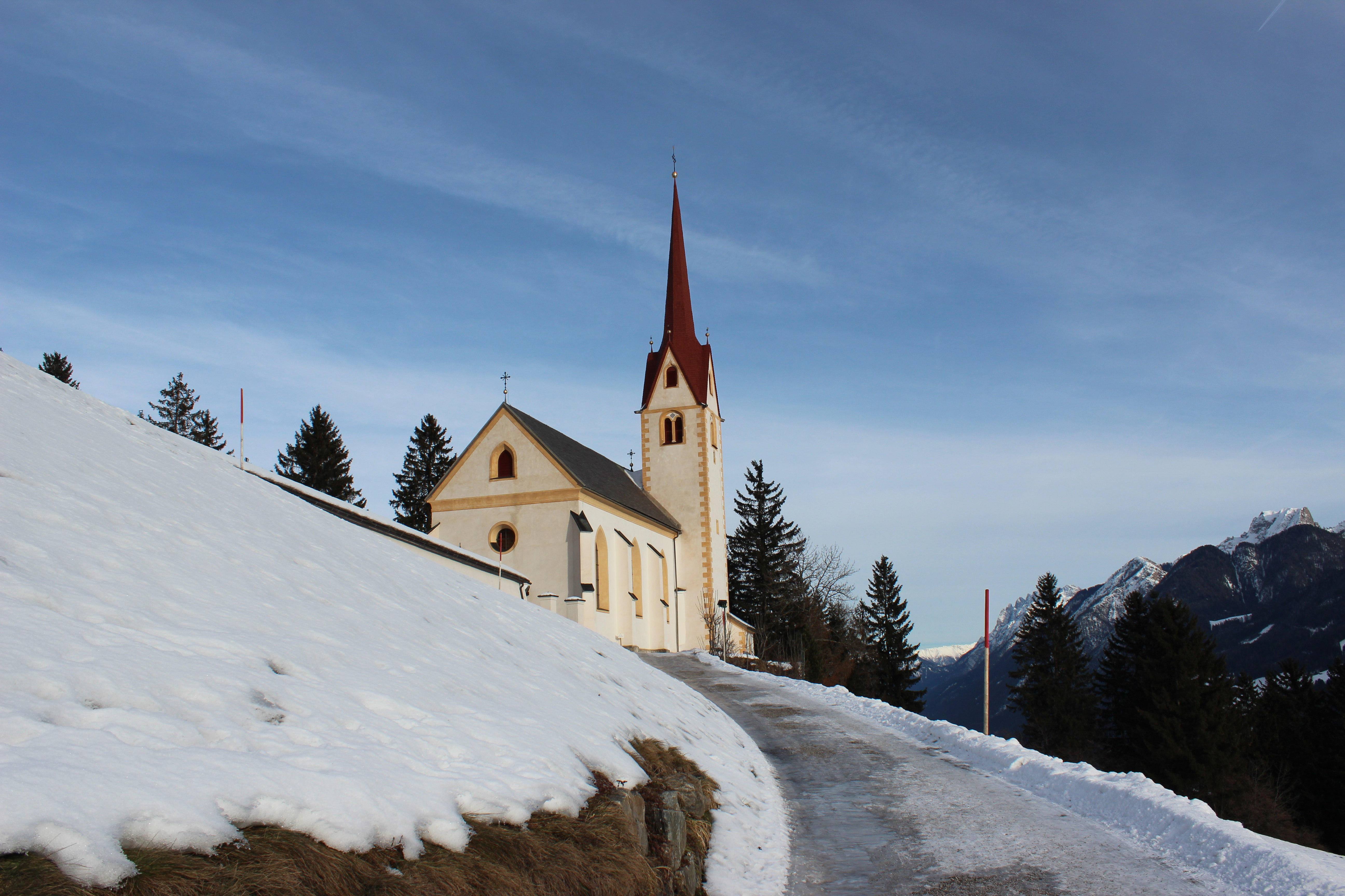 Catholic Church of St. Jakobus der Ältere in Strassen, Tyrol, Austria.